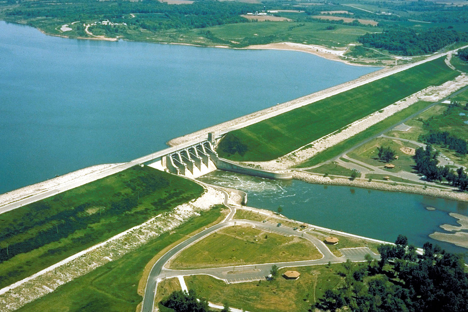 Red Rock Lake, also known as Red Rock Reservoir, and Red Rock Dam in Marion County near the town of Pella, Iowa, USA. The U.S. Army Corps of Engineers constructed the dam for water storage and flood control. View is to the north over the dam.